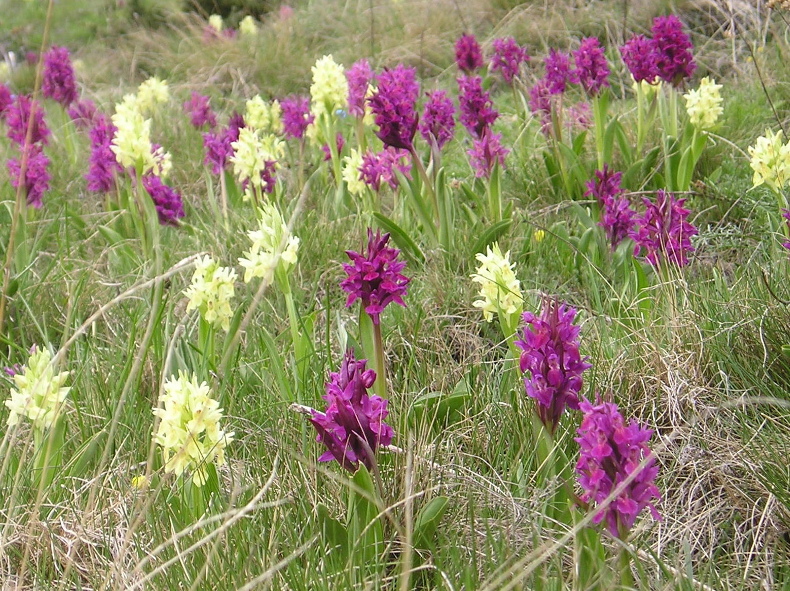 Dactylorhiza sambucina (yellow and purple/red forms growing together) in Andorra.